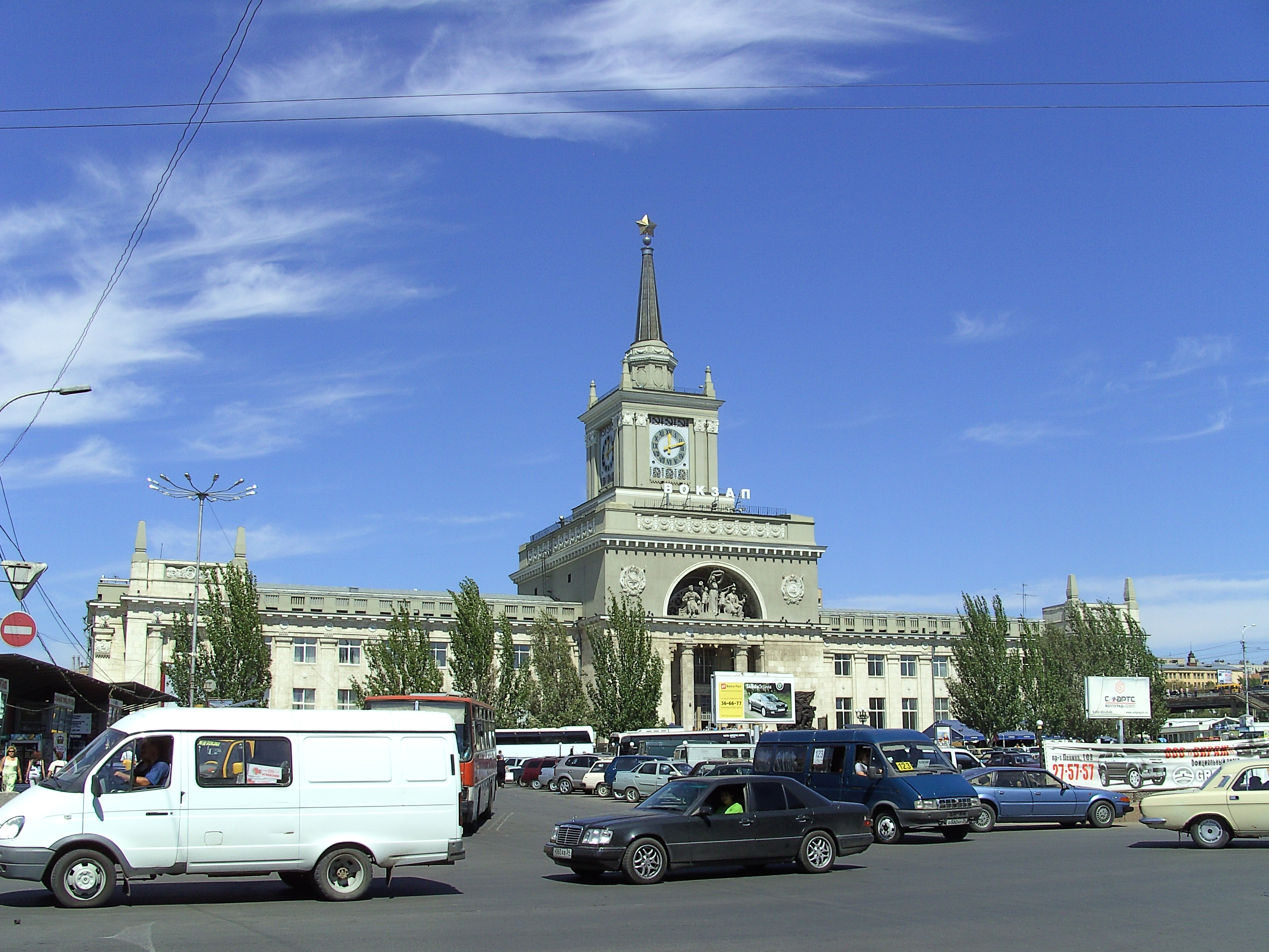 Heavy traffic on the main square in front of Stantsiya Volgograd 1.